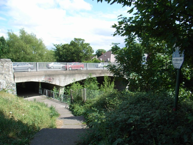 Austin Clarke Bridge over the River Dodder in Templeogue, named after the poet (1896 - 1974) who lived nearby.